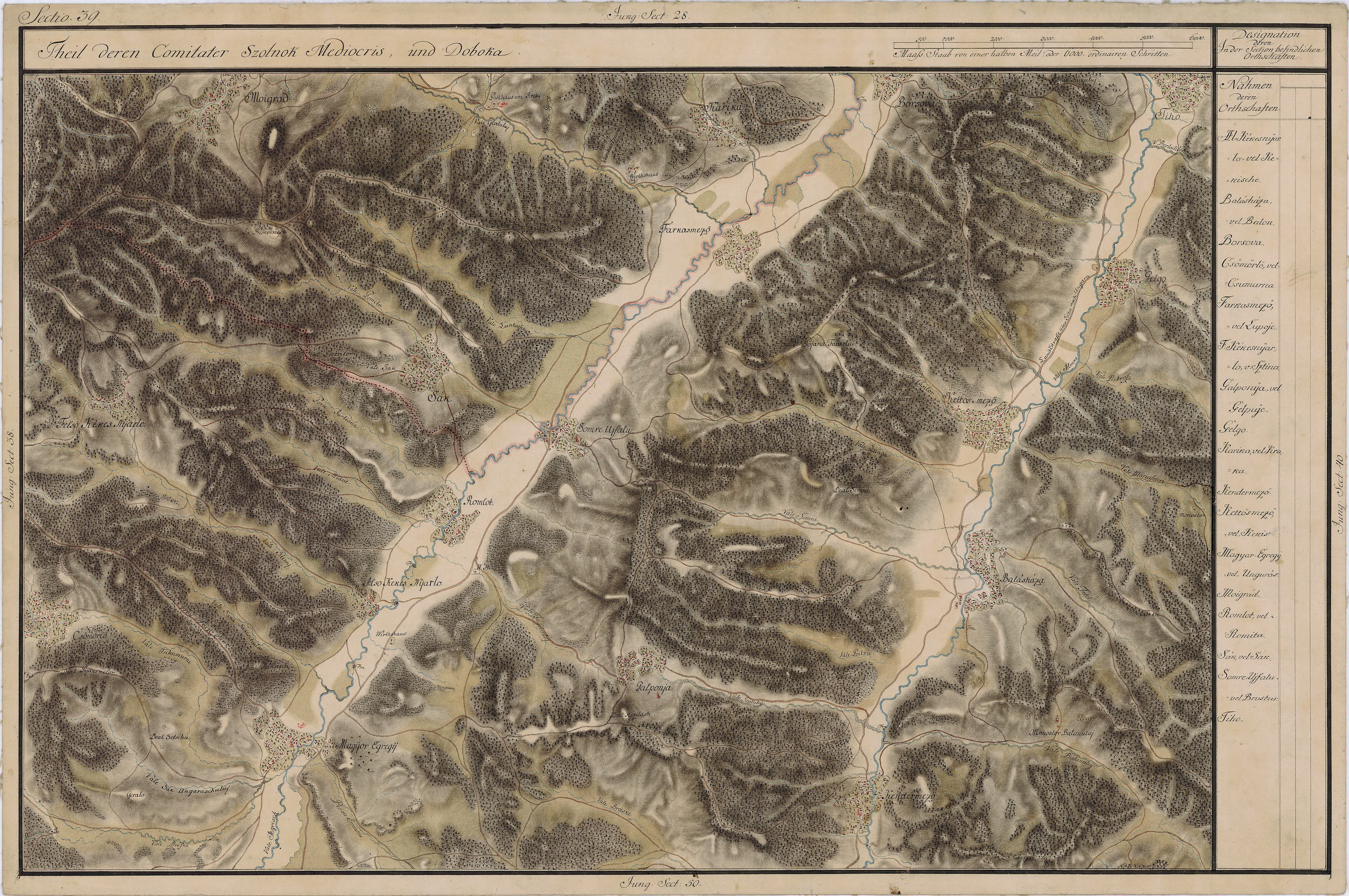 Grand Duchy of Transylvania, 1769-1773. Josephinische Landaufnahme pg.039